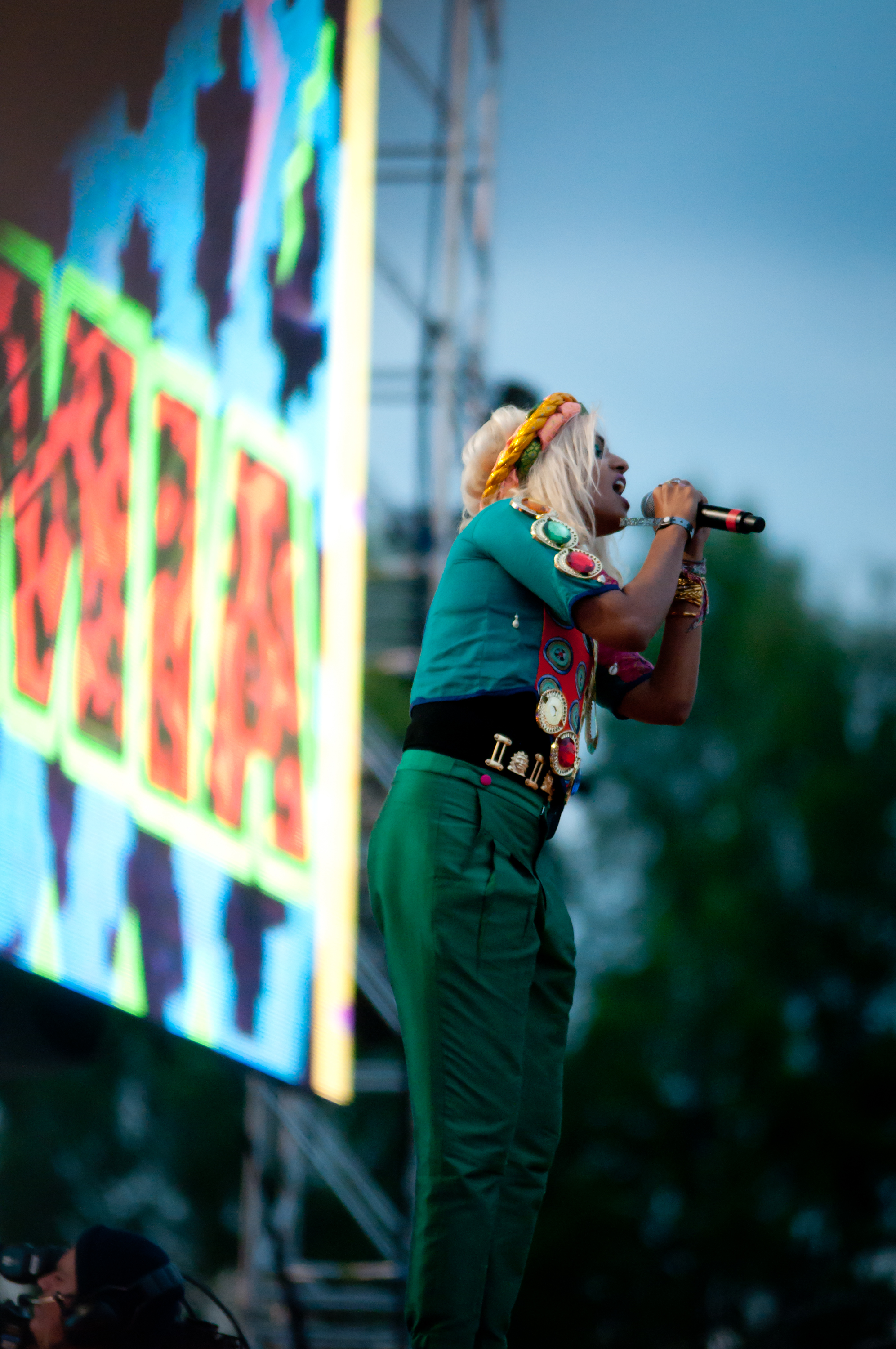 M.I.A. performs on the /\/\ /\ Y /\ support tour, 2011 at Peace and Love Festival